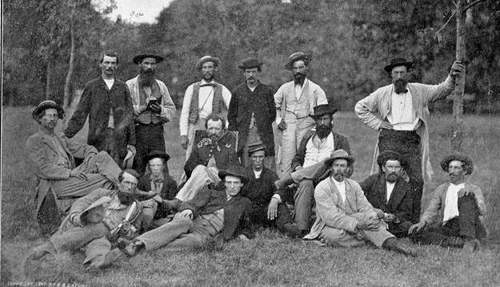 Scouts and guides of the Army of the Potomac, photograph from the book "Original Photographs Taken on the Battlefields During the Civil War," by Mathew Brady and Alexander Gardner, 1907, published by E.B. Eaton, Hartford, Connecticut. Retouched by MarmadukePercy